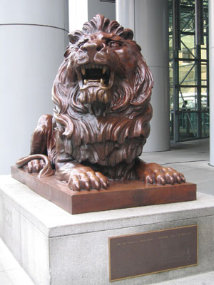 I took the photo of the left lion statue myself on 3-11-2004